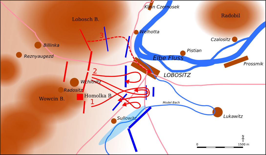 The map is based on a part of a digitized map made in years 1842–1852 as a part of The Second Military mapping. Positions of the units and there movements are taken from various sources and placed approximately to those places where they probably were. See Image:Battle of Lobositz.svg for vector version.